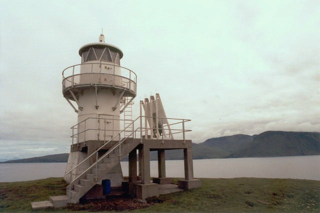 Lighthouse, Isle of Canna Small automatic lighthouse on the eastern tip of Sanday